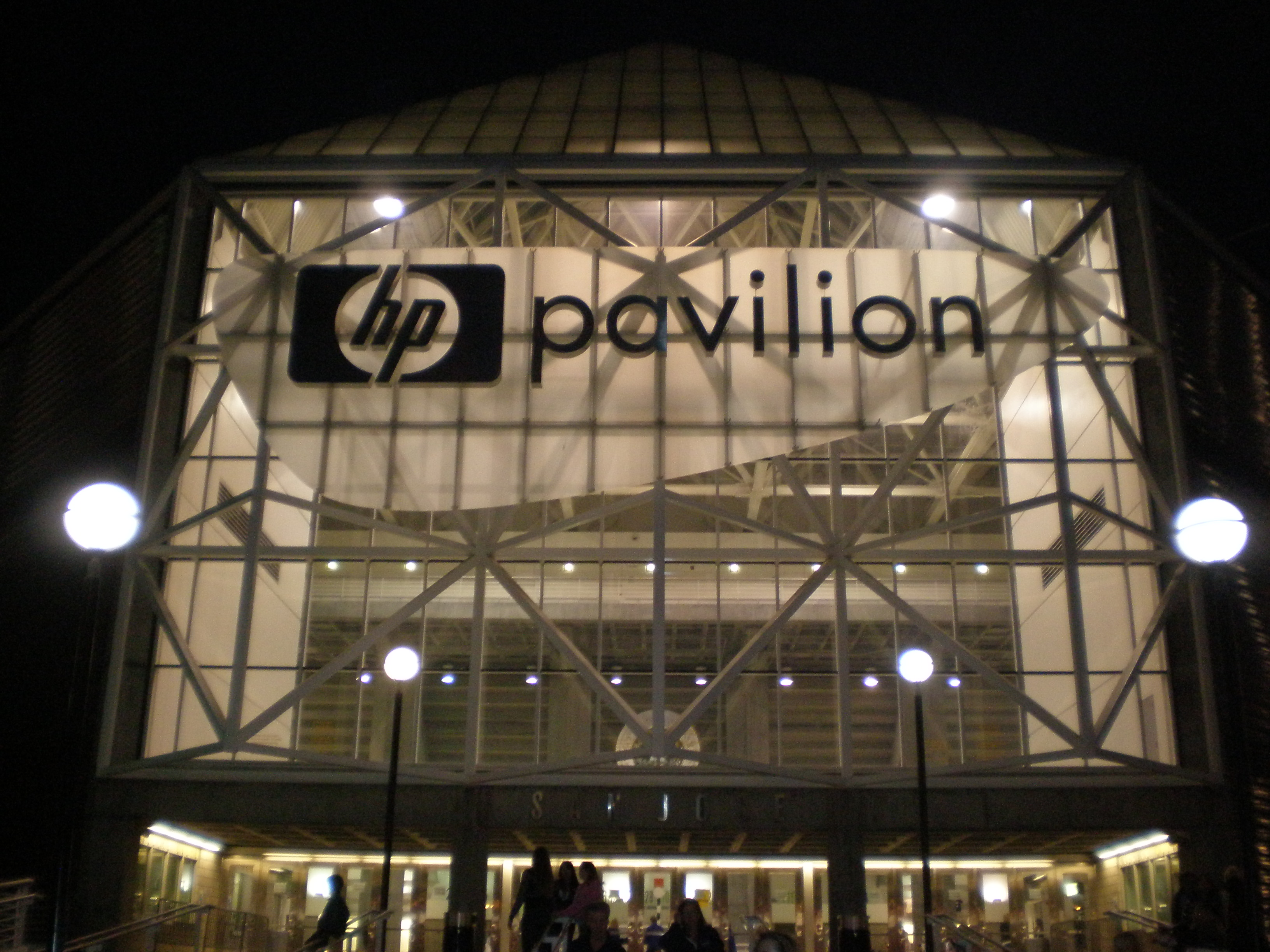 The window on the parking lot side of HP Pavilion.